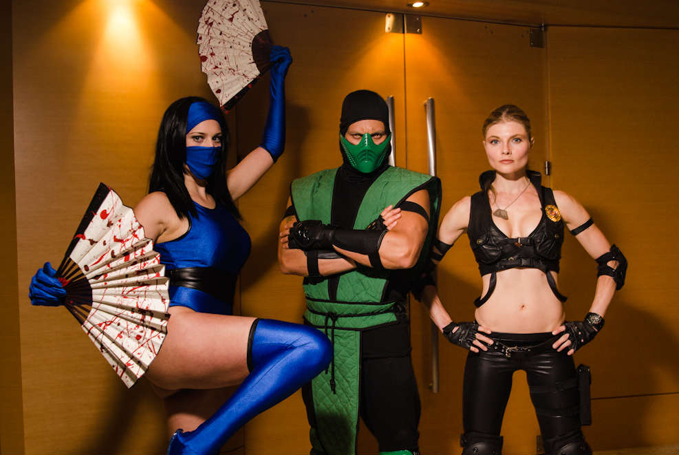 Cosplay of Mortal Kombat video game characters, from left to right Kitana, Reptile, and Sonya Blade.